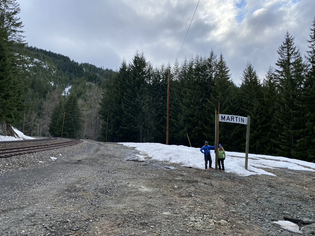 The Martin Washington sign and posts